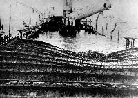 View looking aft aboard the wreck of the Spanish Navy cruiser Reina Cristina after the Battle of Manila Bay in 1898